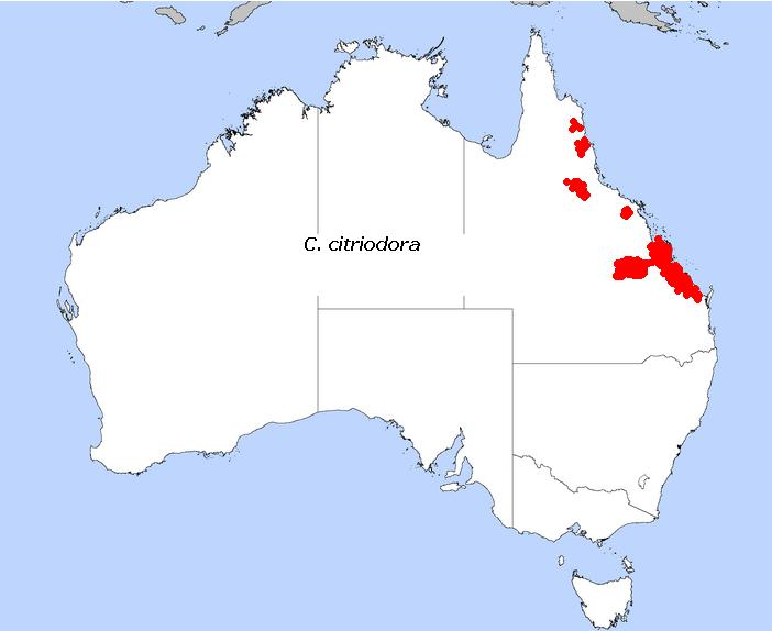 Map of distribution of Distribution Eucalyptus citriodora